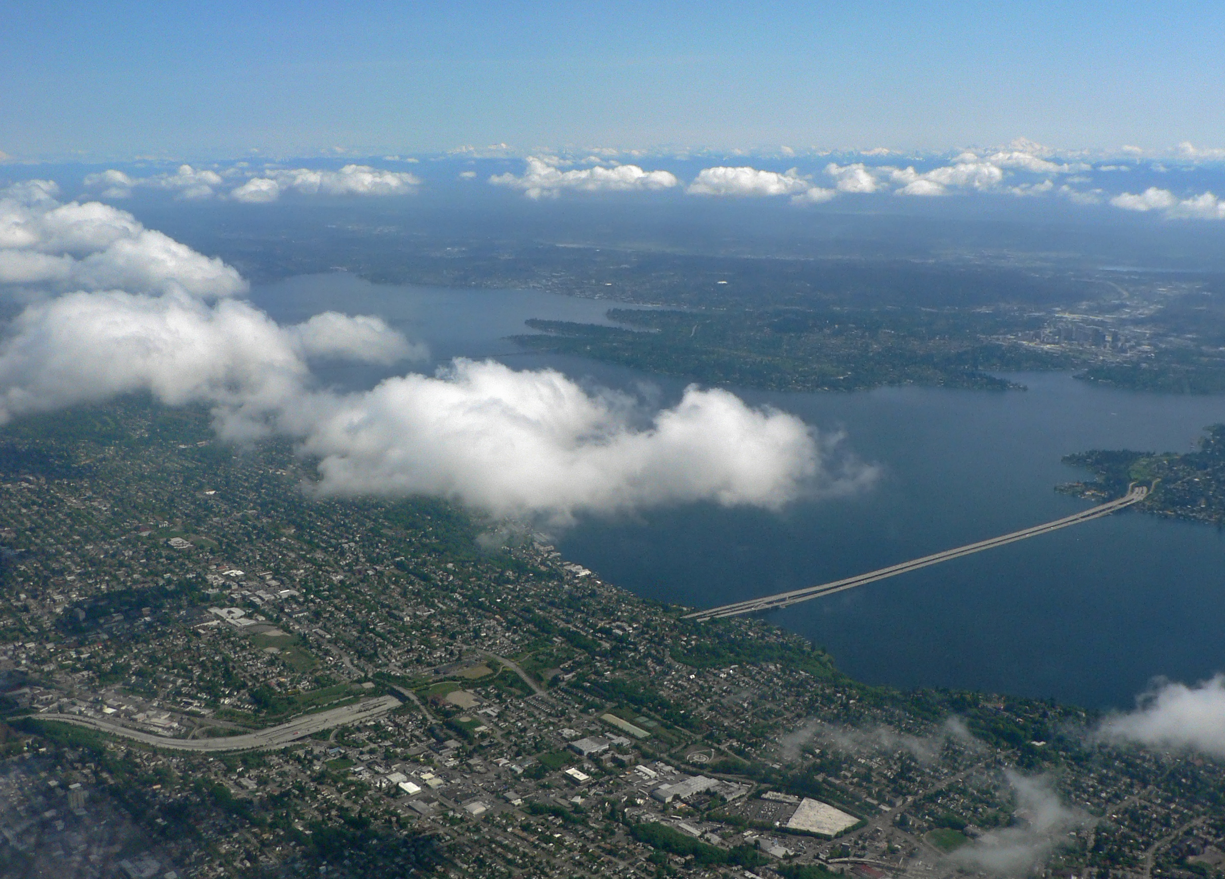 Lake Washington; Interstate 90; Lacey V. Murrow Memorial Bridge and Mount Baker Tunnel; Seattle, Washington